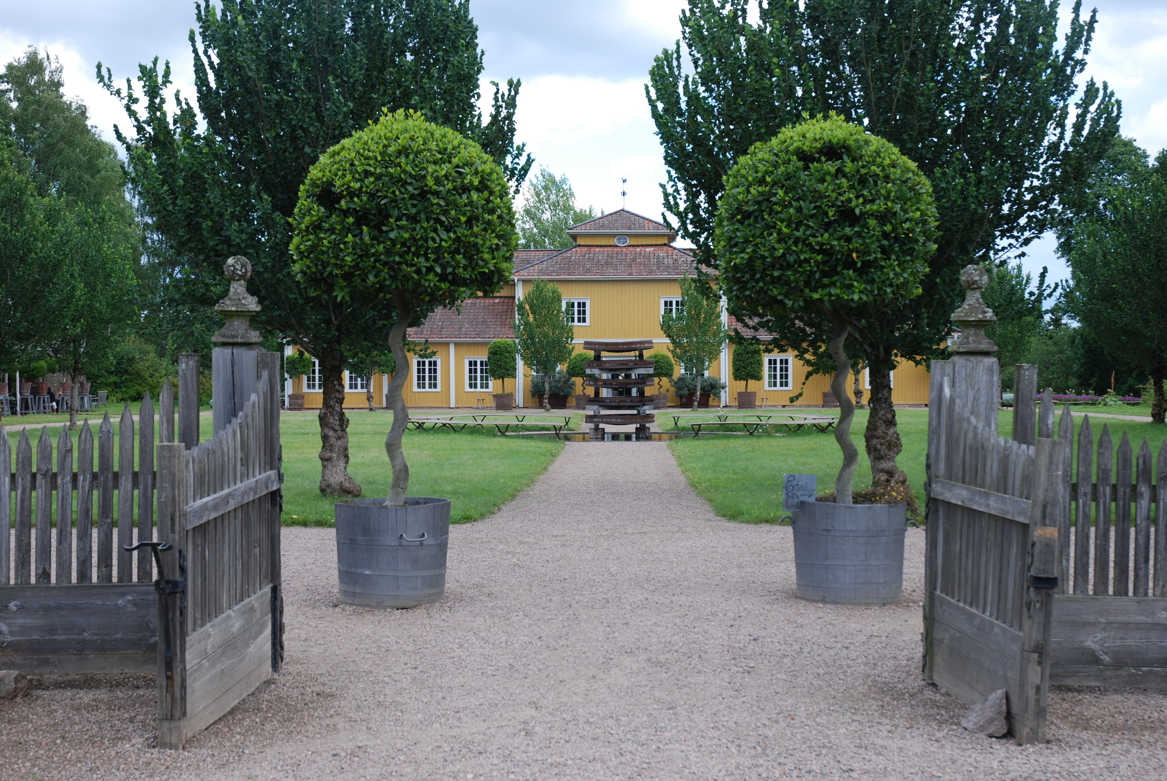 Gunillaberg